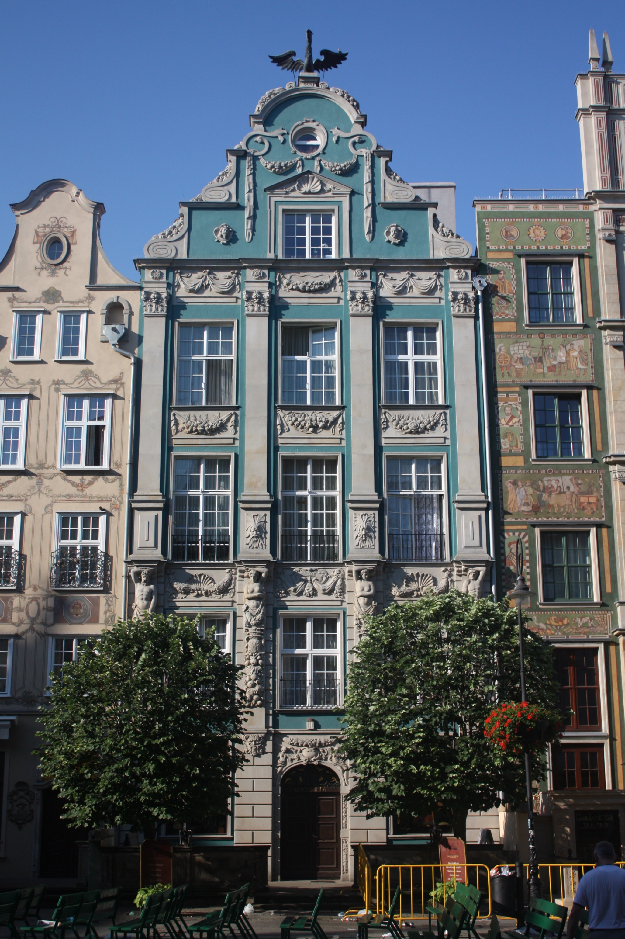 Gdańsk, Longer Market